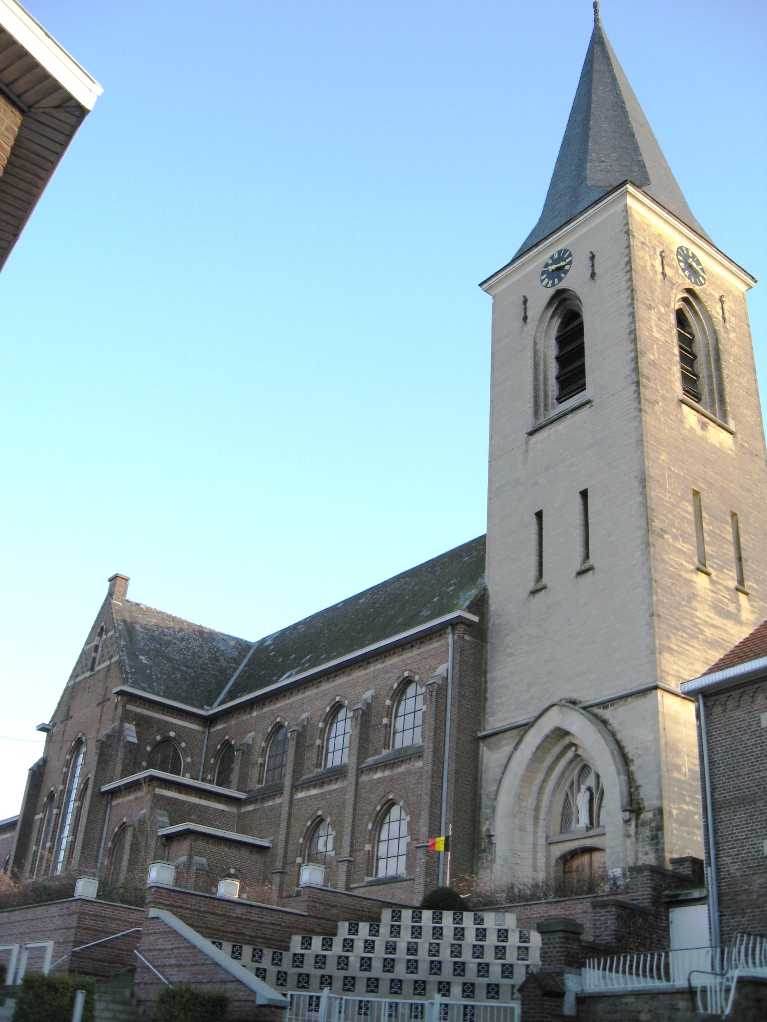 Church of Saint John in Herderen, Riemst, Limburg, Belgium